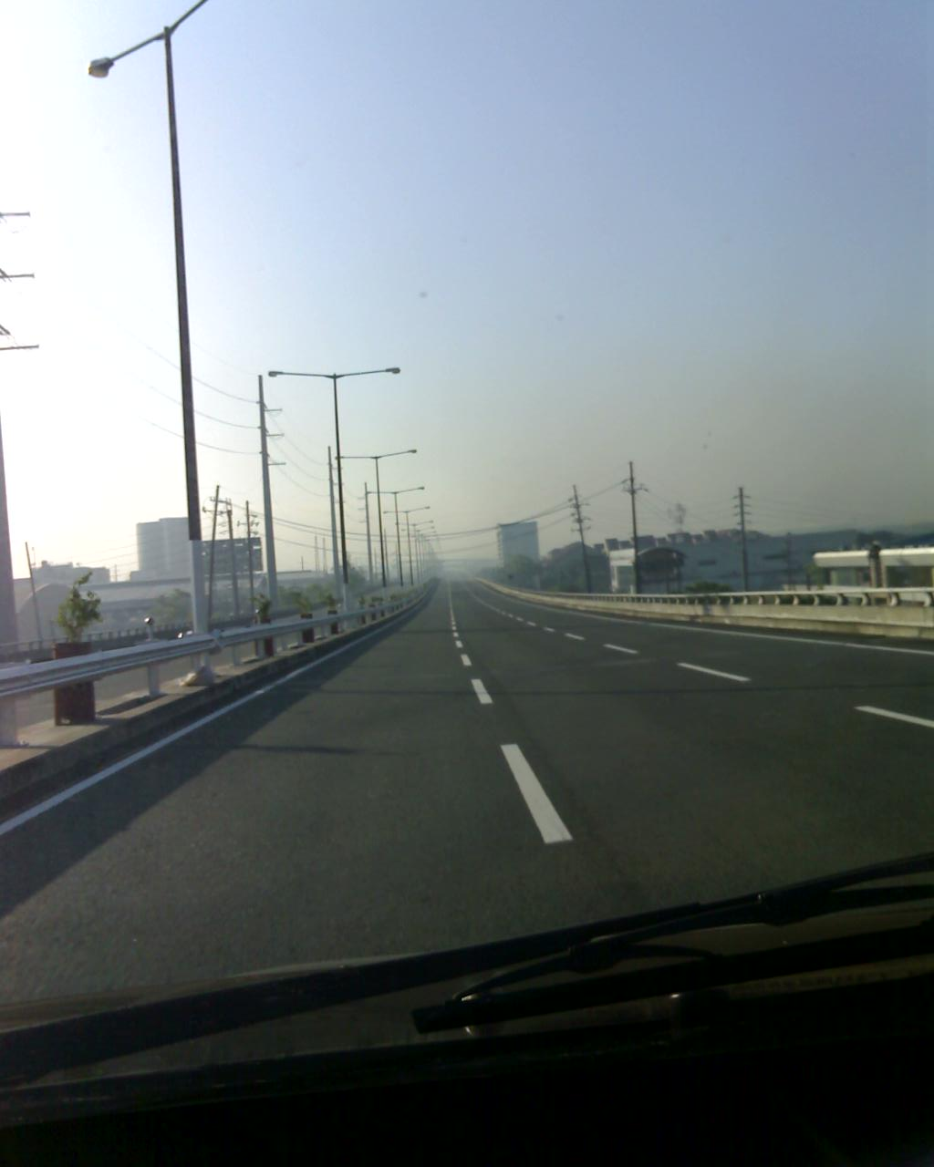 View taken while driving along the Skyway, heading south towards the South Luzon Expressway, taken by me (Badudoy) on 10/21/2006 in the morning.